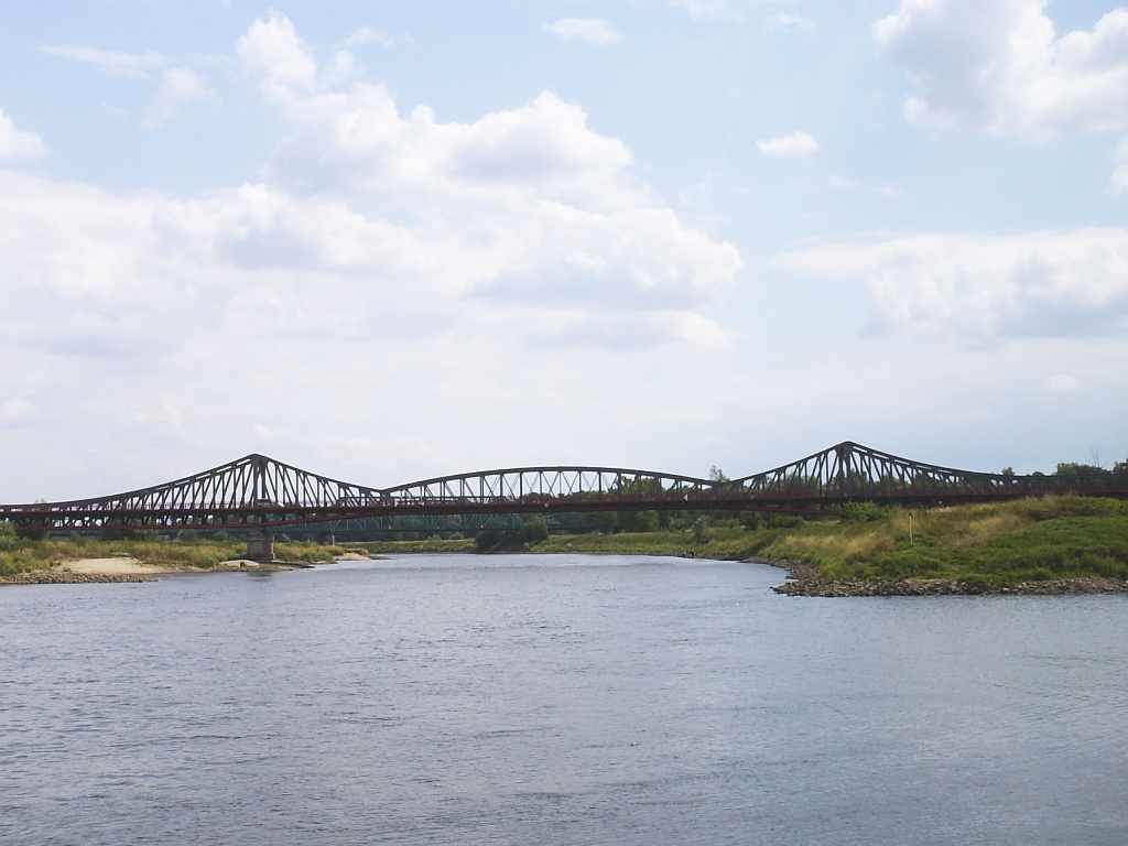 Bridge in Scinawa, Poland